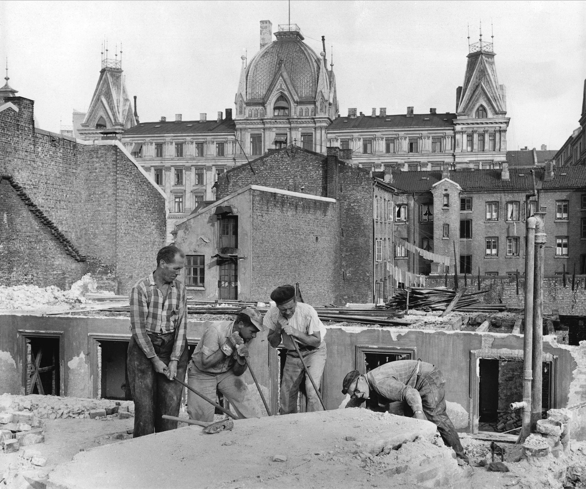 Workers manually demolishing a building in Vika, Oslo. 1059.